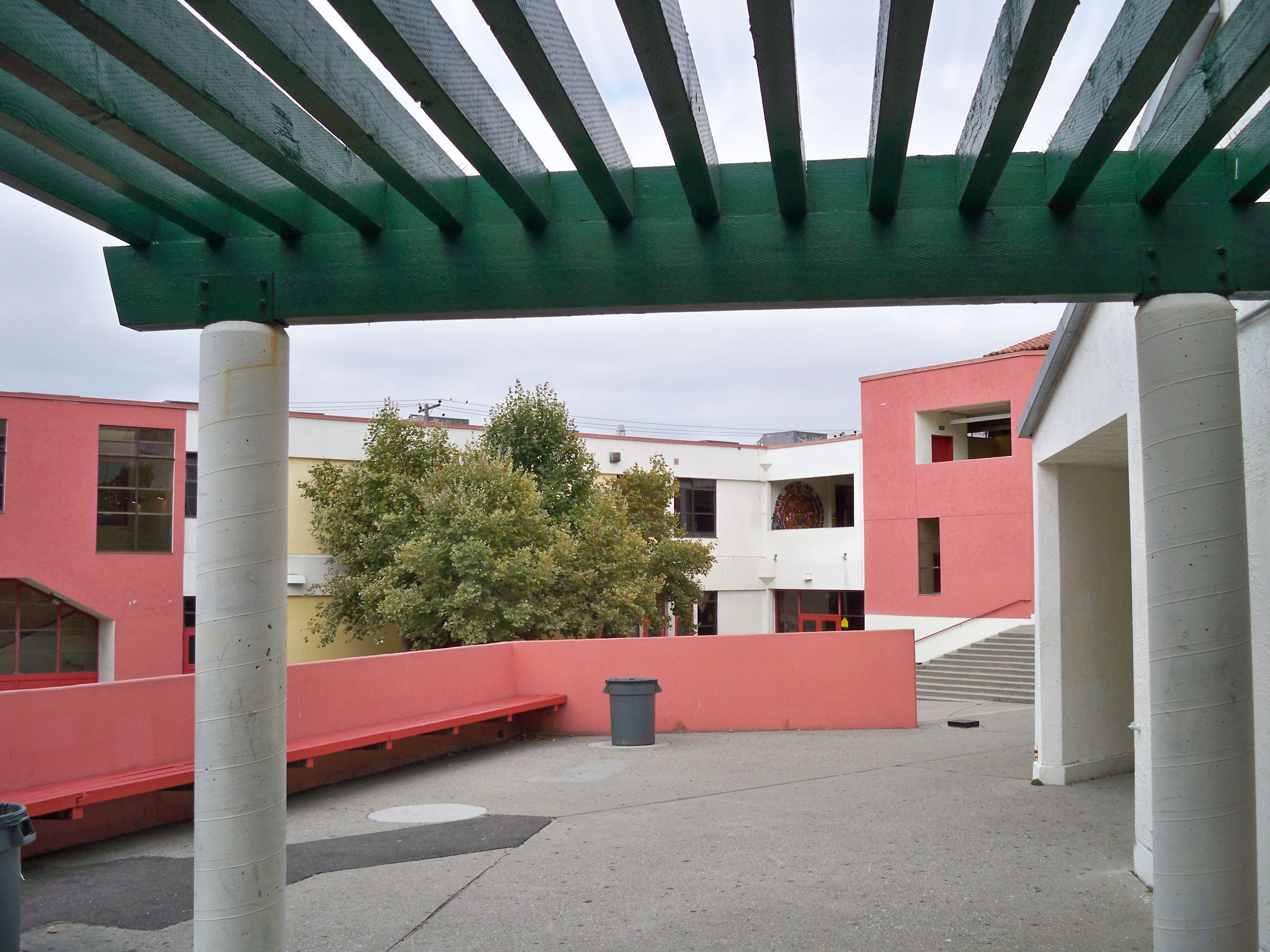 View from the cafeteria at Fremont High, Oakland